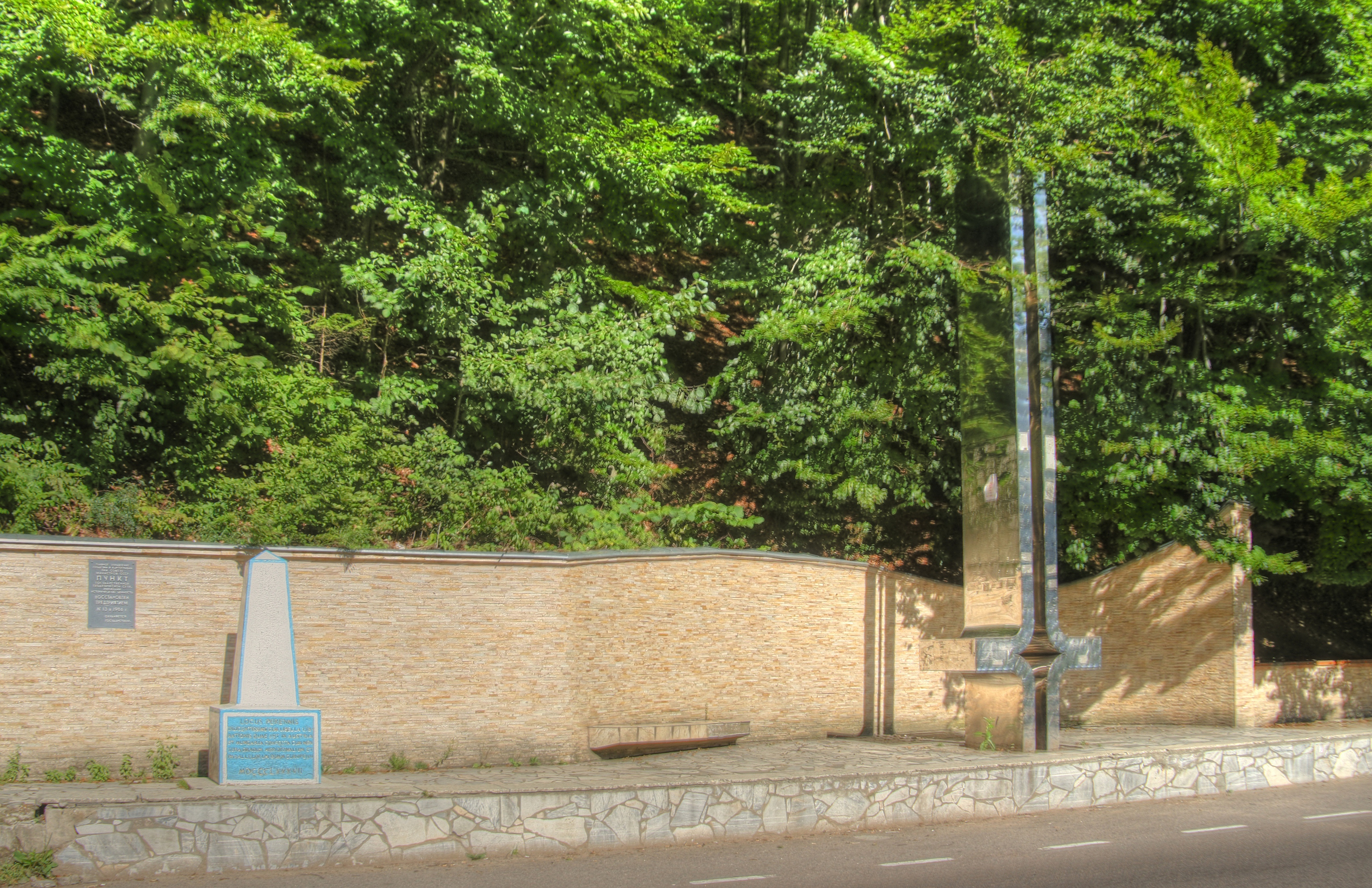 Geographical midpoint of Europe in Kruhlyj, Rakhiv Raion, Zakarpattia Oblast, Ukraine